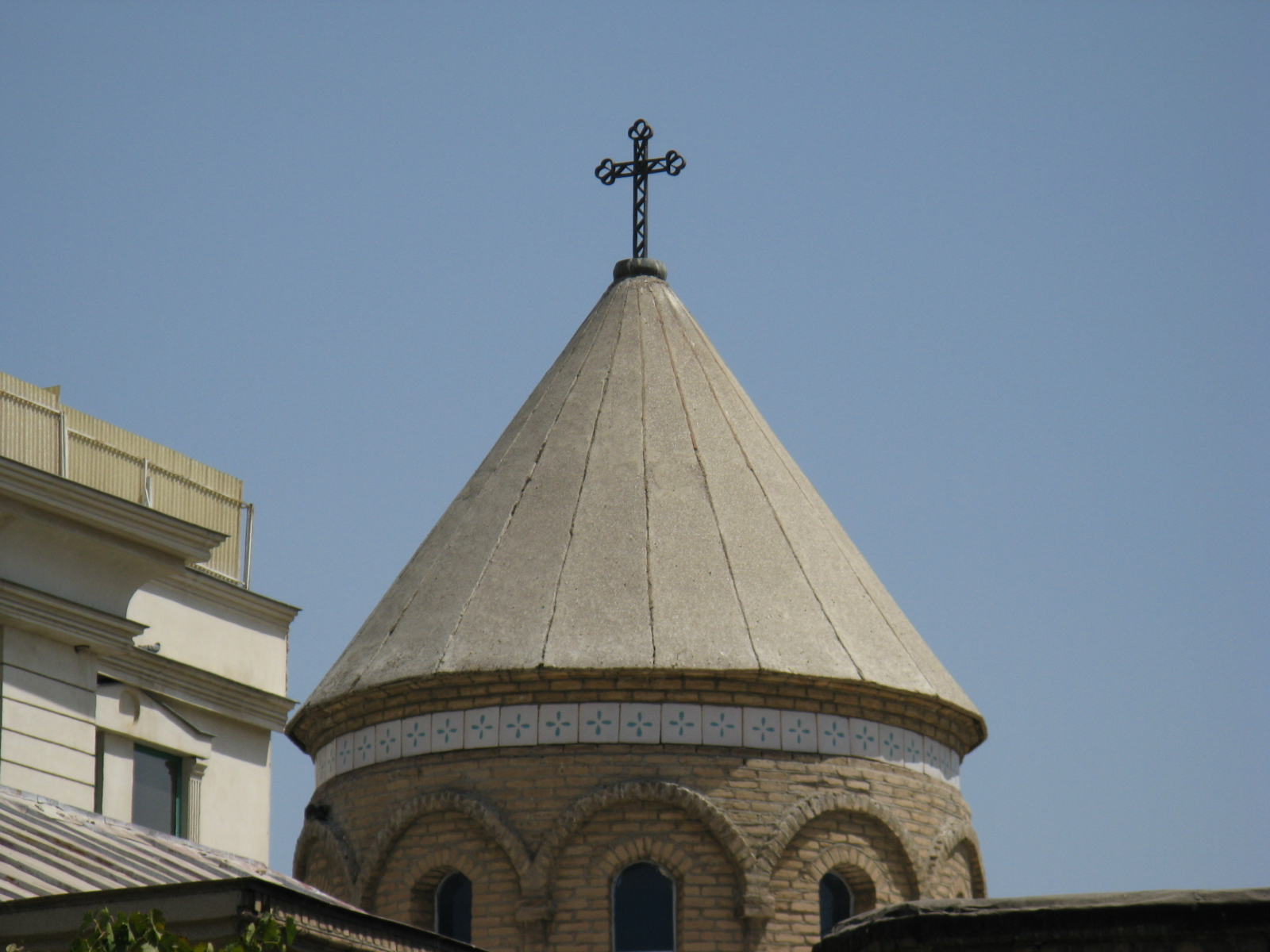 St. Mesrop Church